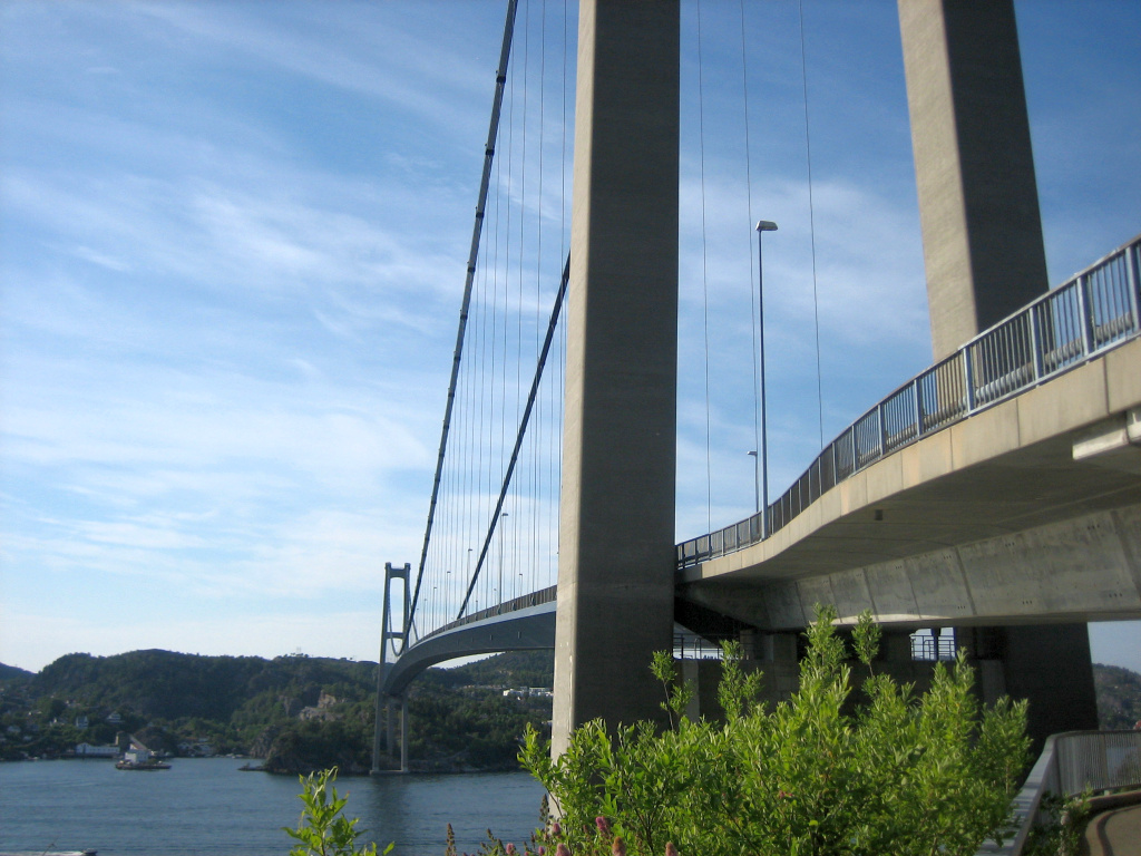 Askøy Bridge is a road bridge in Hordaland county (fylke), Norway.